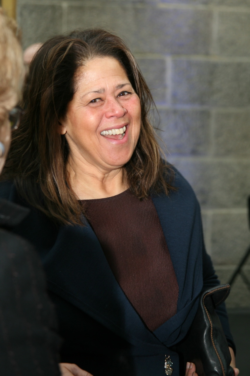 Anna Deveare Smith, American actress